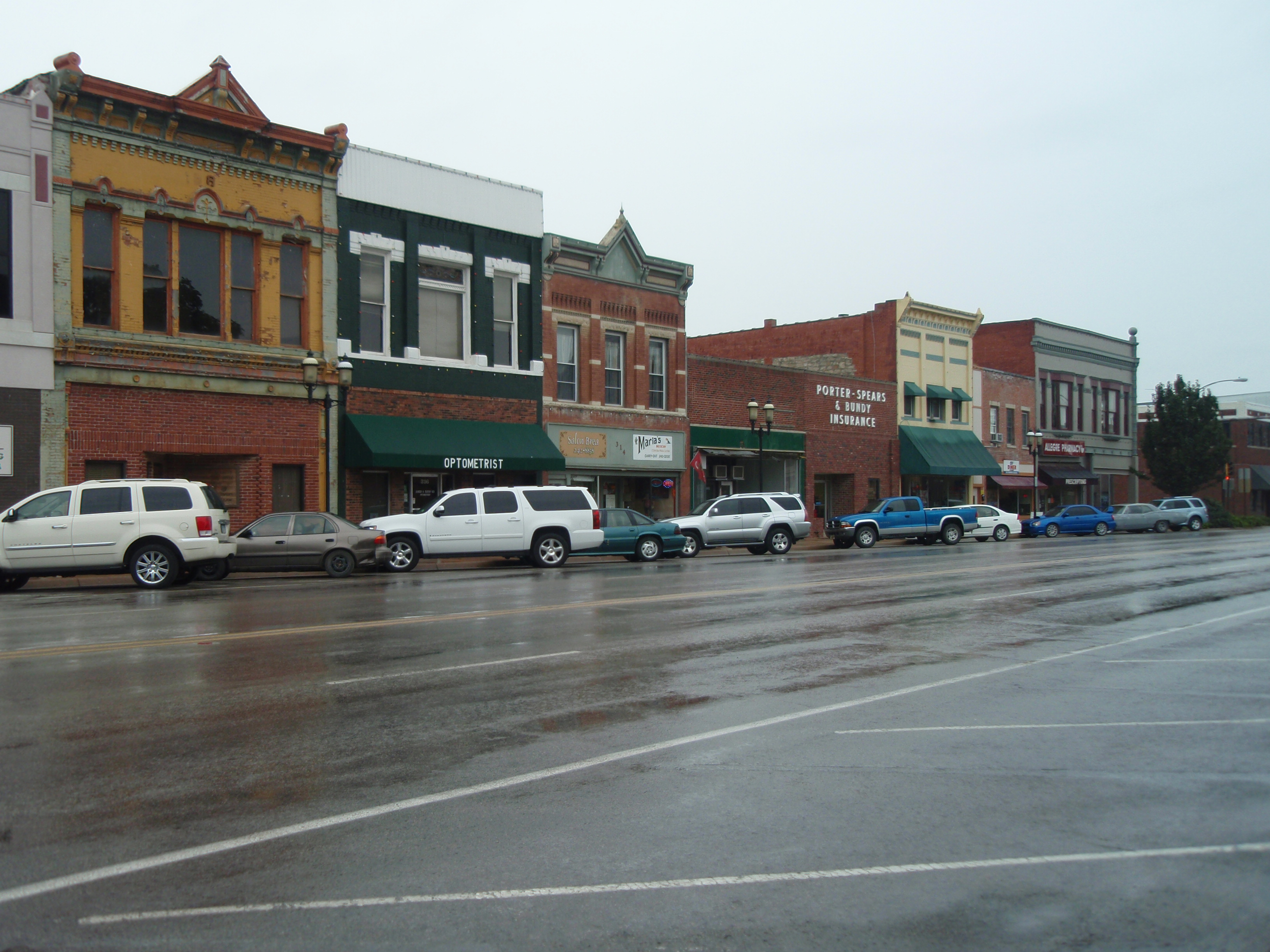 Downtown business district of Ottawa, Kansas